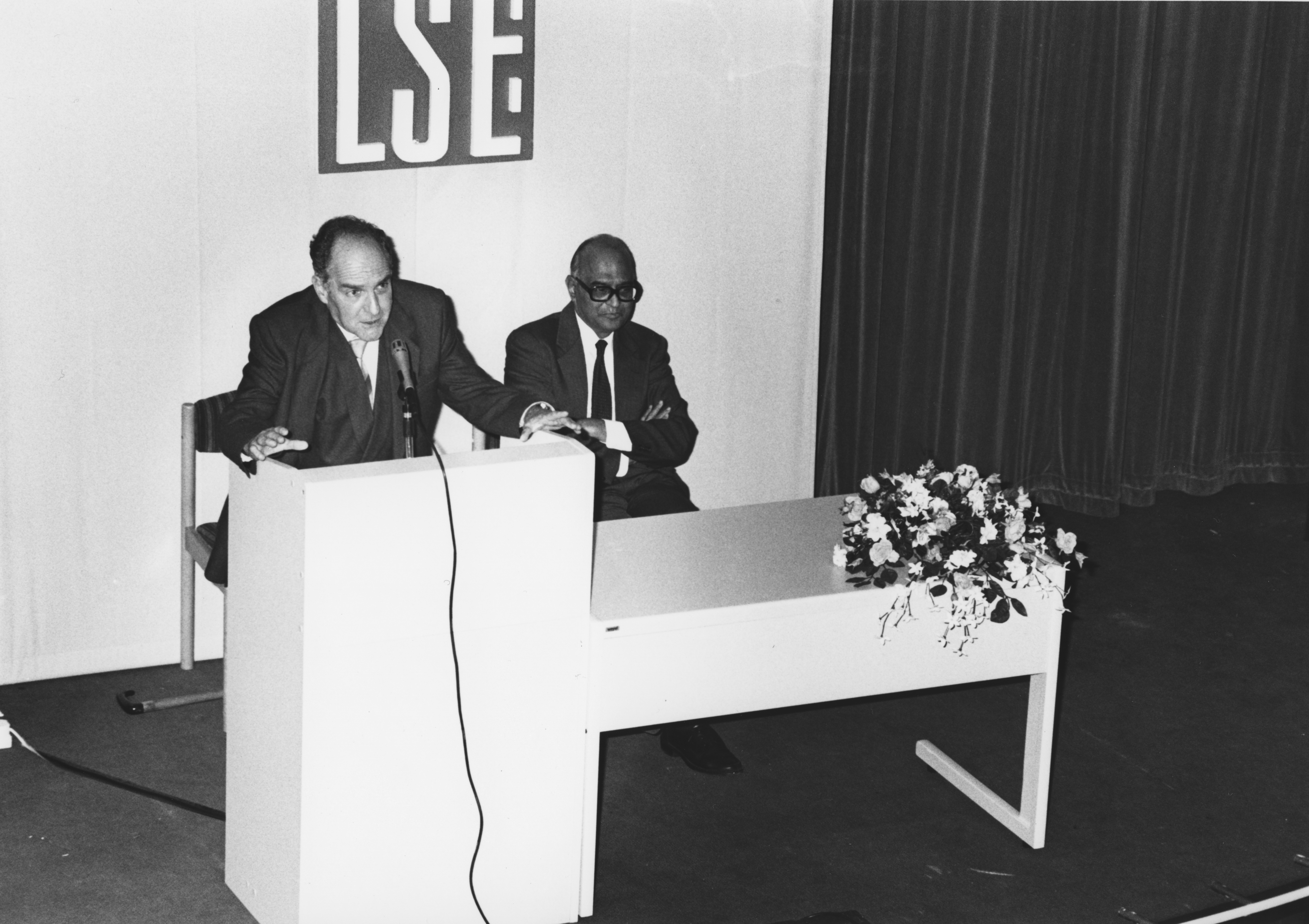 LSE Public lecture, Thursday 19th October 1989 Perestroika Observed IMAGELIBRARY/82 Persistent URL